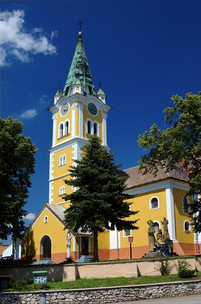 Radošovce, church